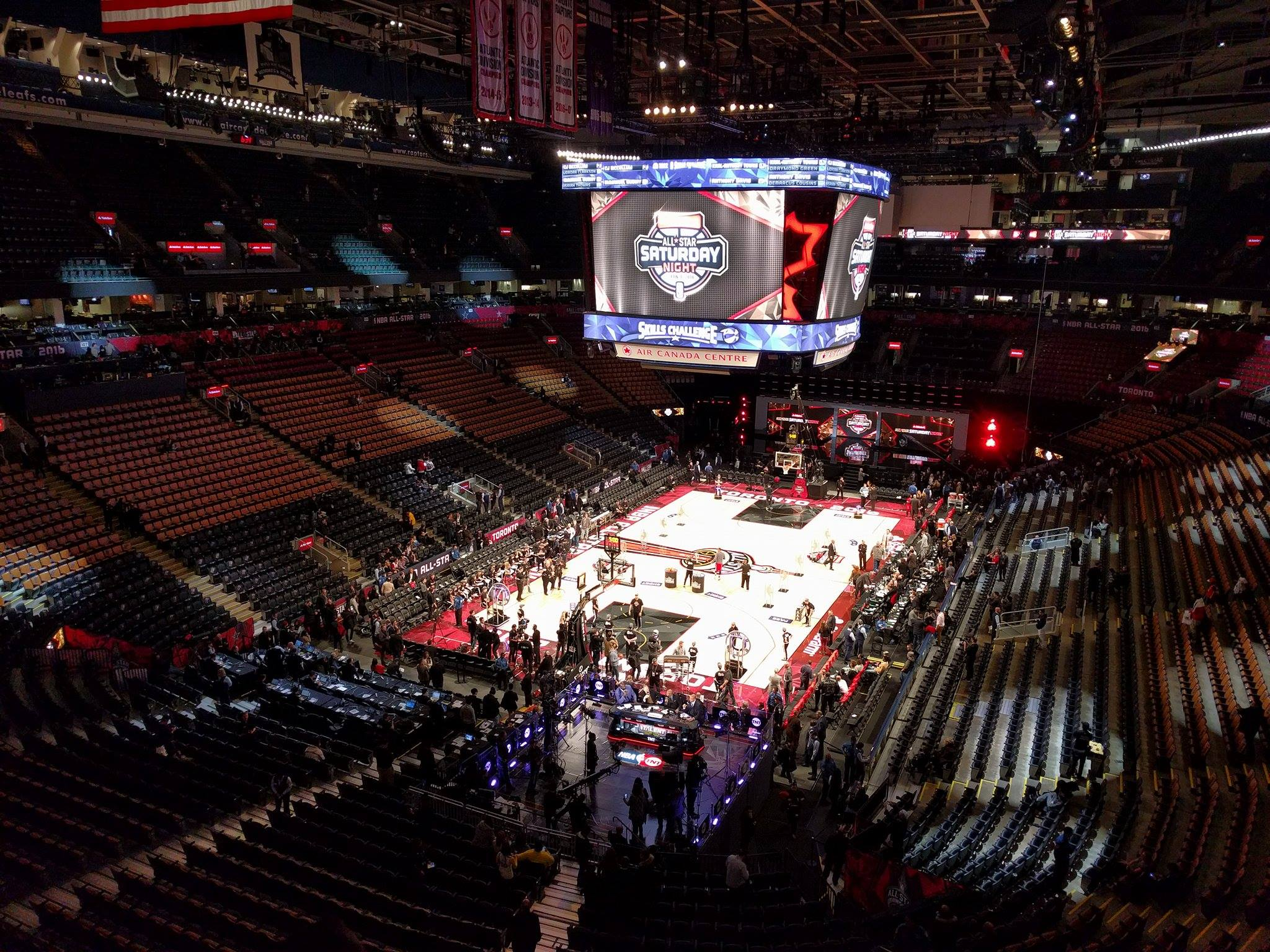 NBA All-Star Game - Saturday Skills Challenge, Three-Point Contest and Slam Dunk Contest. Air Canada Centre, Toronto 2016